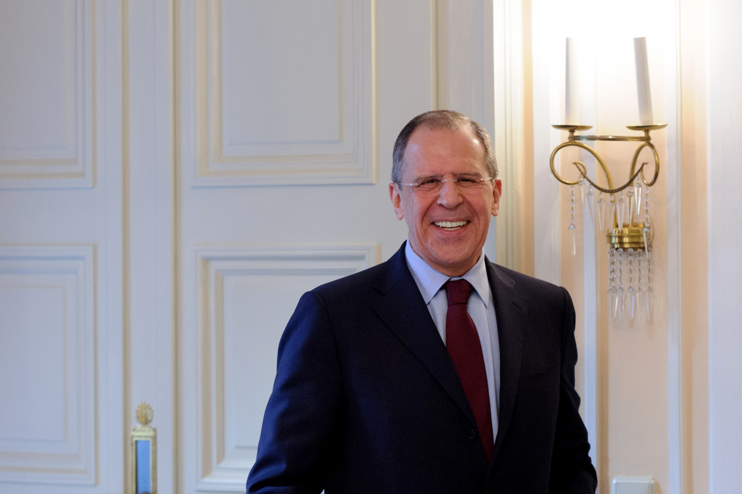 50th Munich Security Conference 2014: Sergey Lavrov: Sergey V. Lavrov (Minister of Foreign Affairs, Russian Federation).